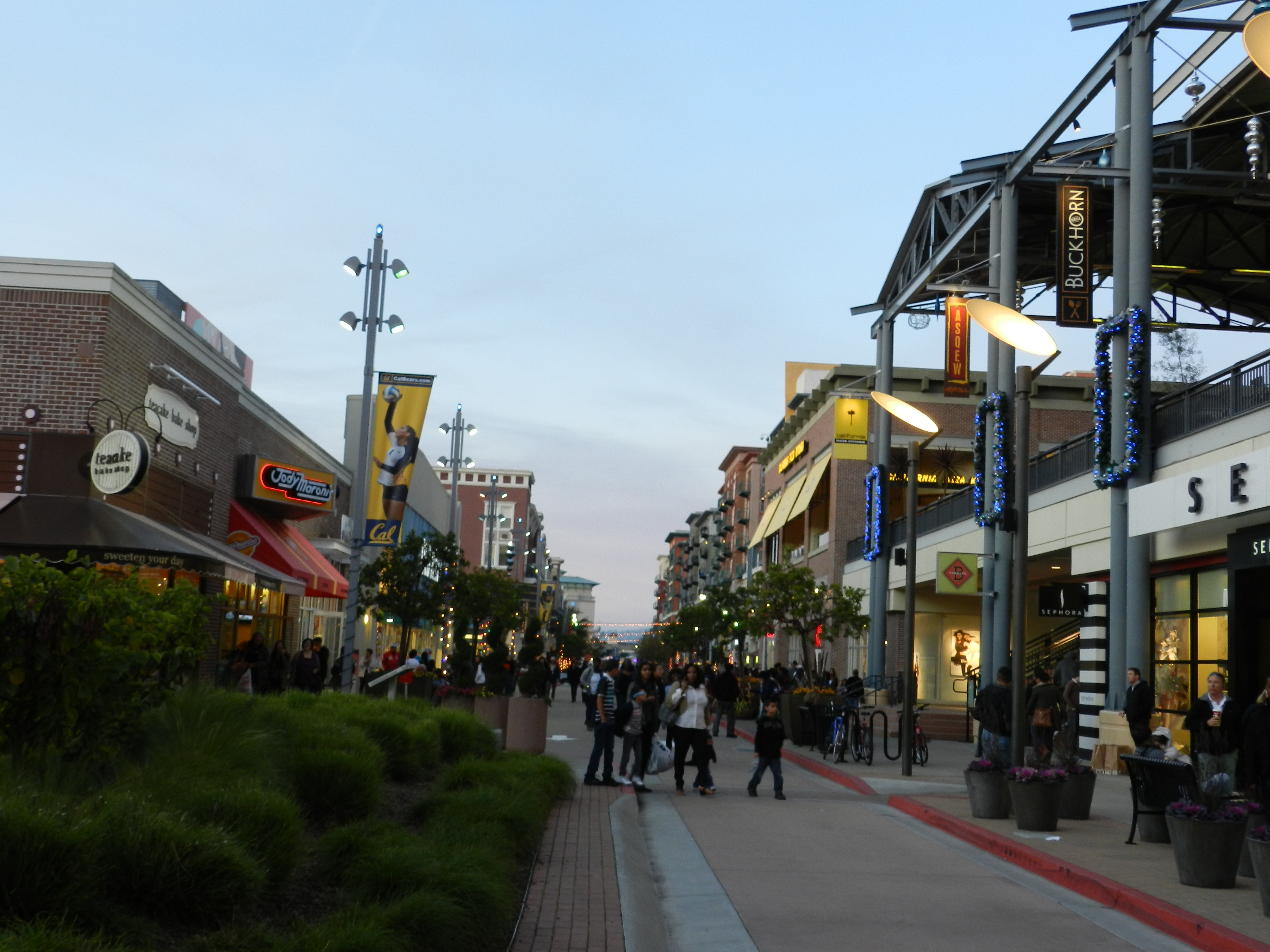 main street through Bay Street Shopping Mall, Emeryville, california